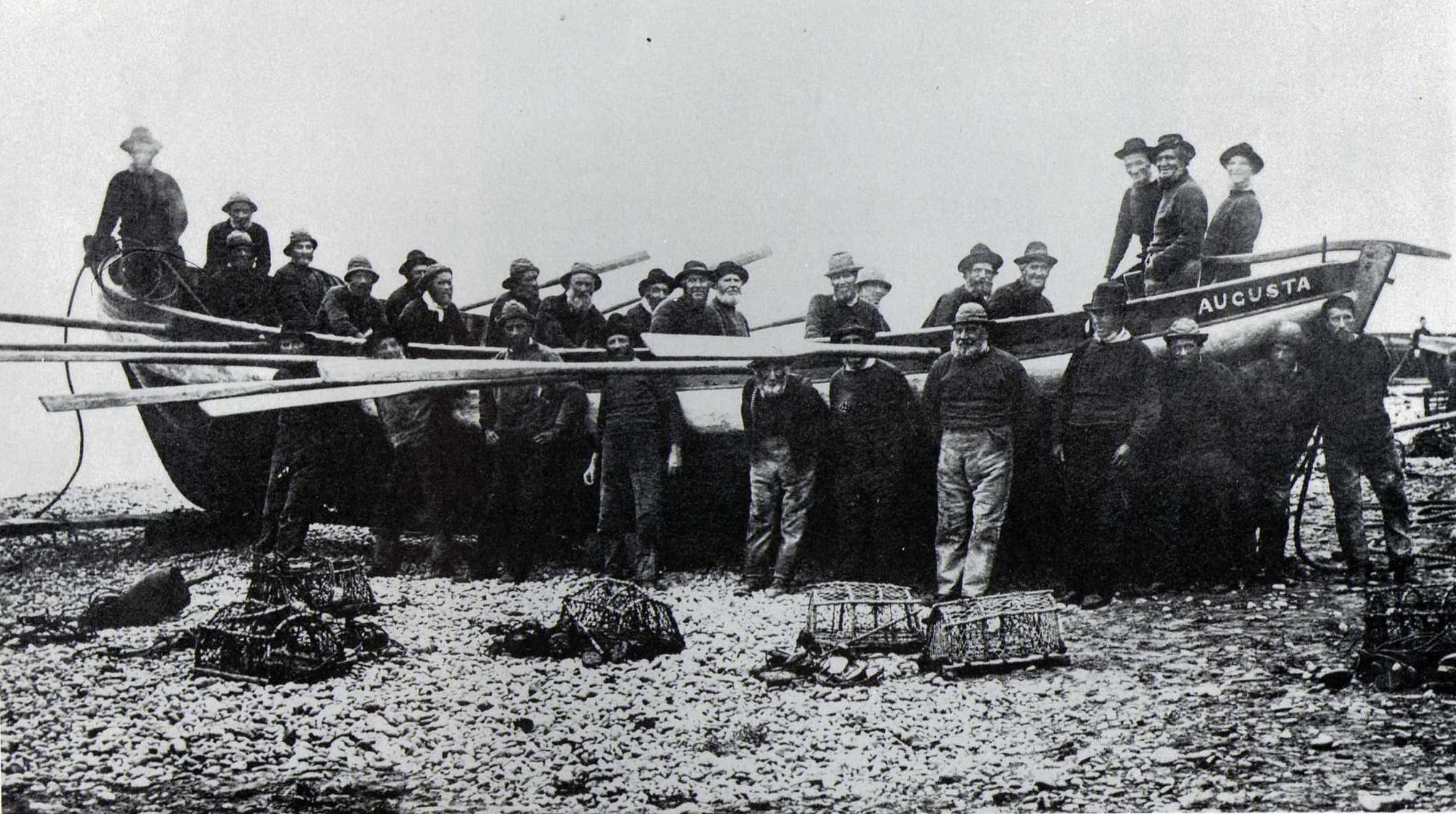 Post card image from cica 1890's of the Sheringham lifeboat Augusta and her Crew